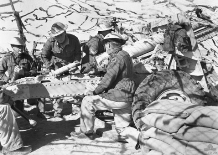 Bardia, Libya 29 December 1940. No. 5 gun crew, 1st Battery, "A" Troop, 2/1st Field Artillery Regiment. The gun crew comprises Sergeant Pearse, Bombardier Frankfort, Gunner Hillcoat, Gunner O'Sullivan, Gunner W. K. Smith and Gunner Krumback. This 25-Pounder Mark II is camouflaged with hessian and streamers and engaged in harassing Italian positions before the actual "push".